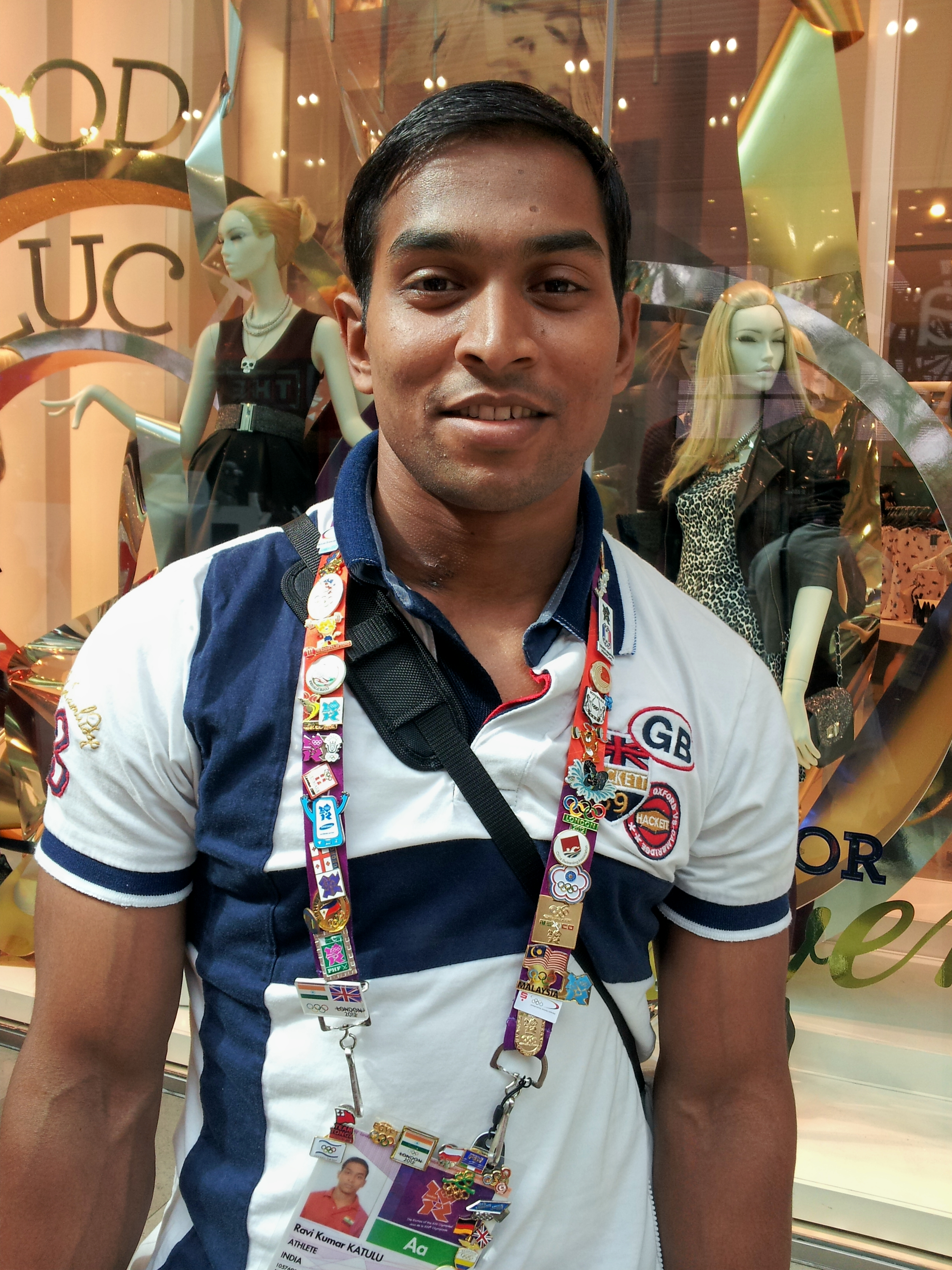 Indian weightlifter Katulu Ravi Kumar, taken at The London 2012 Summer Olympic Games